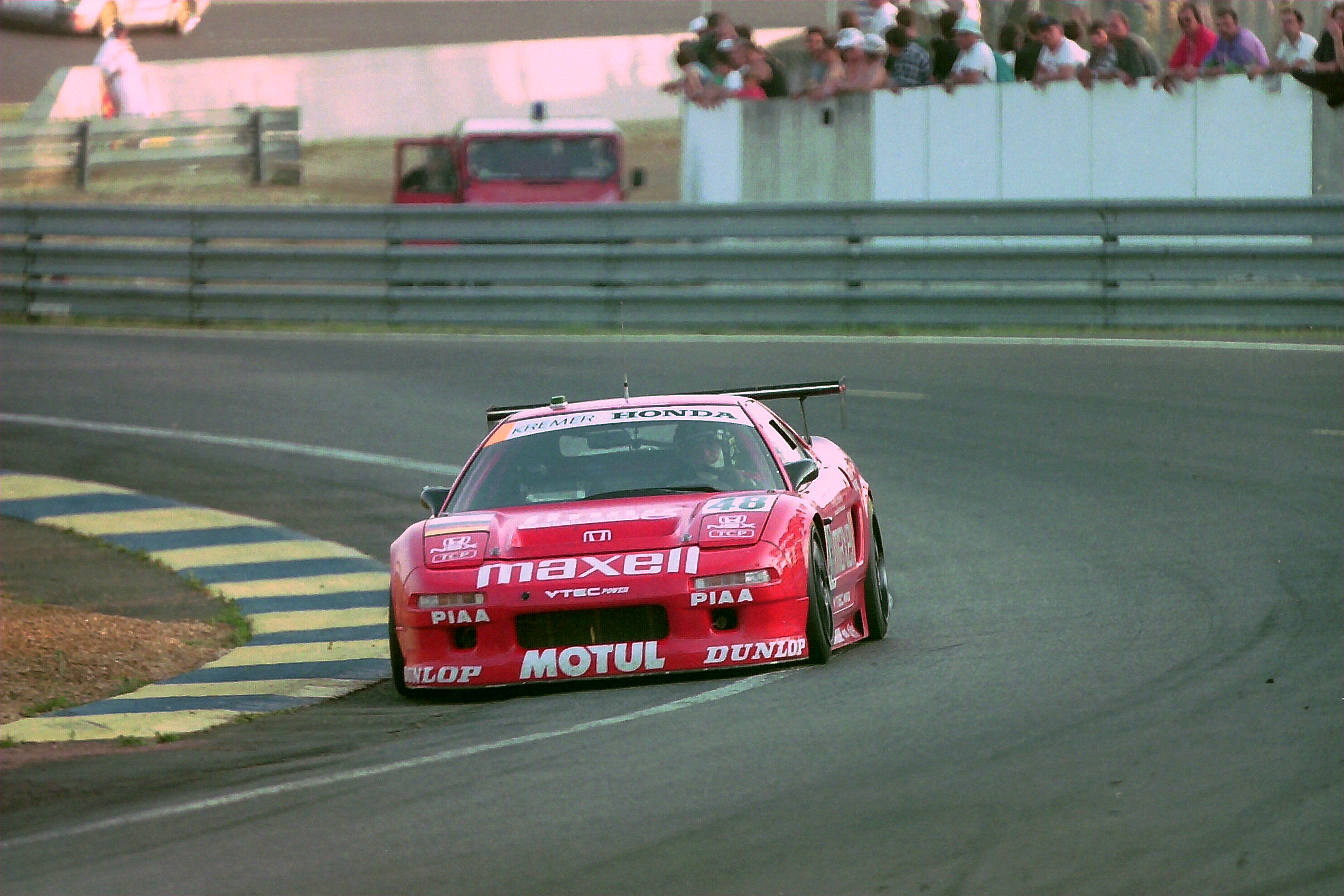 Honda NSX - Armin Hahne, Christophe Bouchut & Bertrand Gachot exits the Esses at the 1994 Le Mans